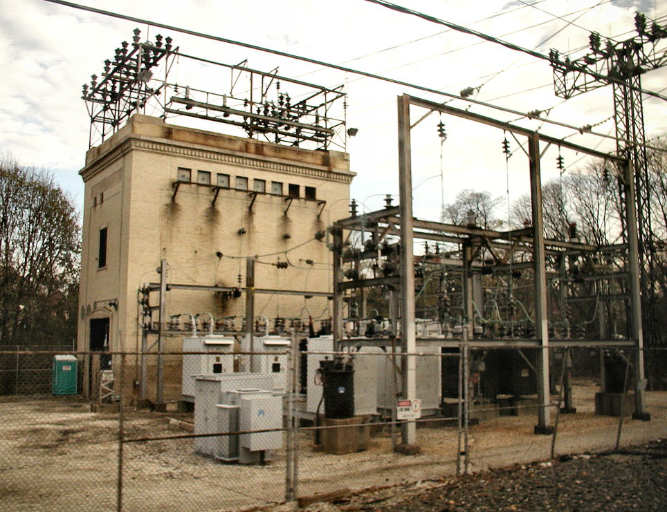 Old electrical transformer house built for the Pennsylvania Railroad 1915 electrification project at Bryn Mawr, Pennsylvania. Currently used by Amtrak as a switching station.